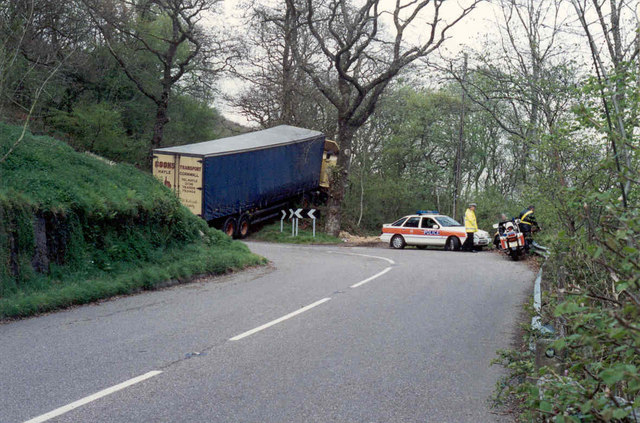 Countisbury, The 1 in 4 Hill. This shows that a hill with a gradient of 1 in 4 is no place to run out of road!